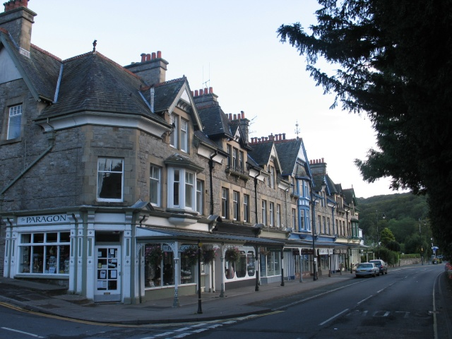 Main Street at Grange-over-Sands Grange-over-Sands is a small Cumbrian seaside town lying on the north side of Morecambe Bay. Originally a small fishing village, Grange developed during the second half of the 19th Century with the arrival of the Lancaster & Ulverston Railway (later absorbed into the Furness Railway), when it became a popular seaside resort and much of this is evident in the Town's (mostly unspoiled) Victorian architecture.